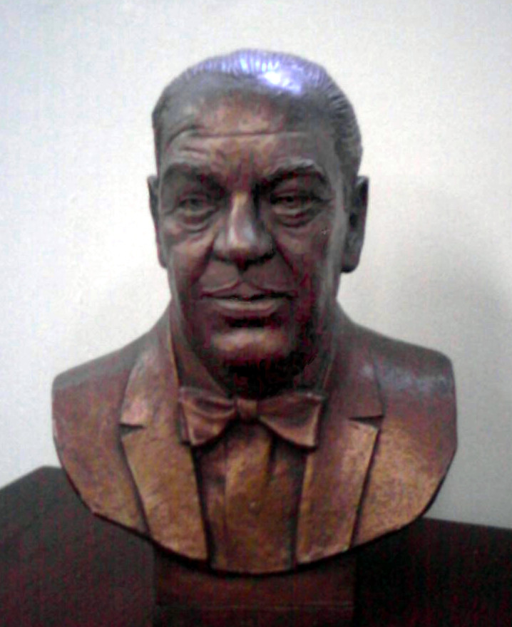 Bust of Clement Stone, taken at the Canadian headquarters of the Combined Insurance Company of America.